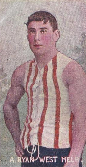 Cigarette card of Bert Ryan from the Sniders & Abrahams 1906 series